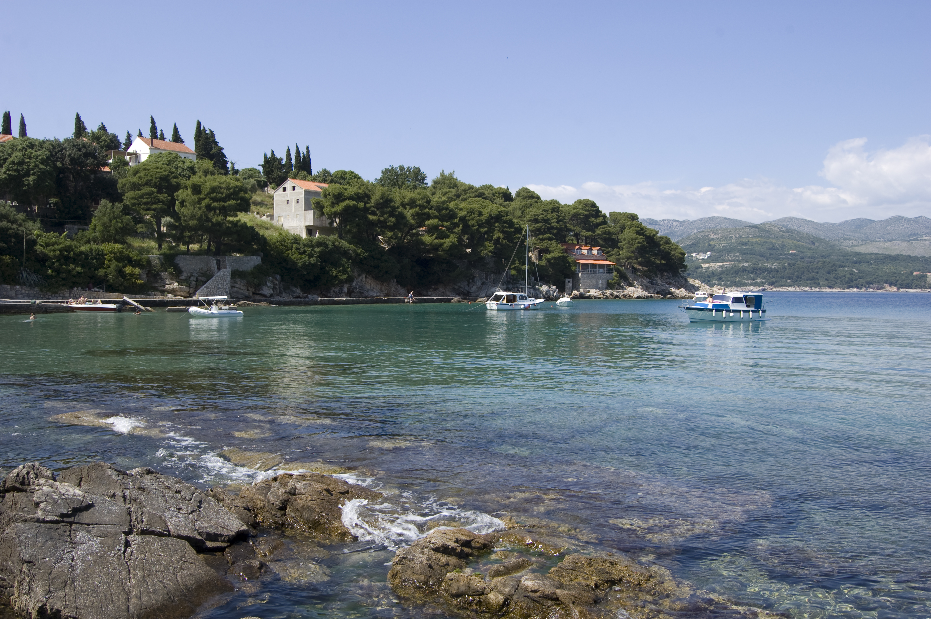 Gornje Čelo on the island of Koločep, Croatia.